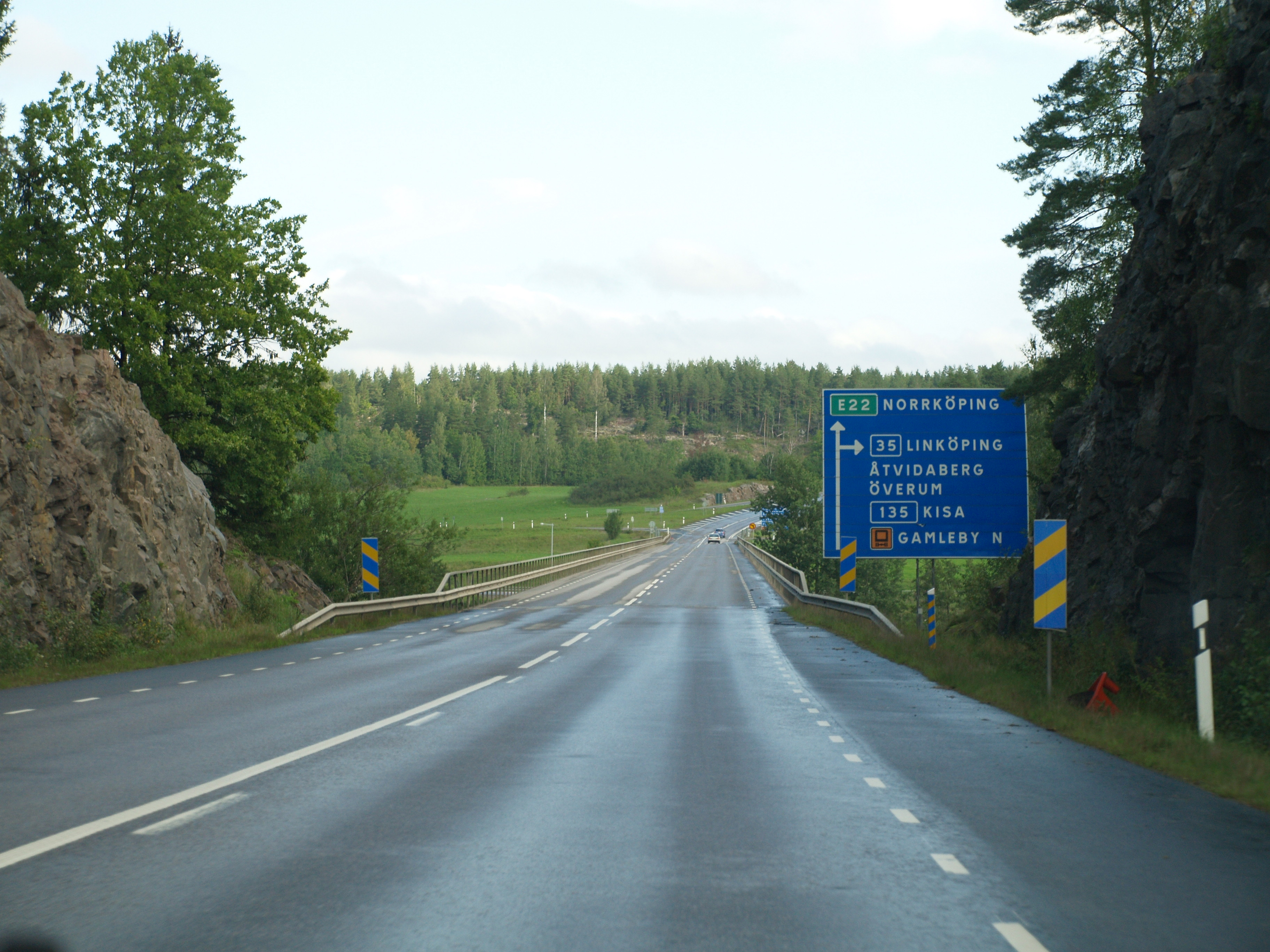 E22 near Gamleby, Sweden